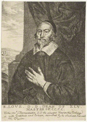 Portrait of Richard Love, (1596–1661) English churchman and academic, Master of Corpus Christi College, Cambridge.